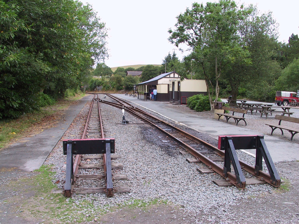 Devil's Bridge (Pontarfynach) Railway Station